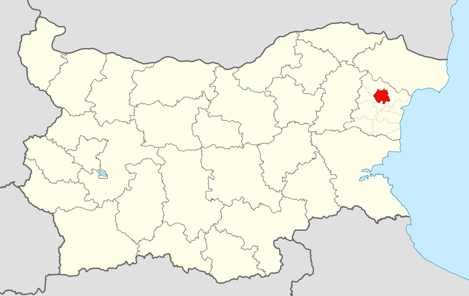 Location map of Suvorovo Municipality within Varna Province, Bulgaria. Equirectangular projection, N/S stretching 130 %. Geographic limits of the map: N: 44.4° N S: 41.1° N W: 22.1° E E: 28.9° E